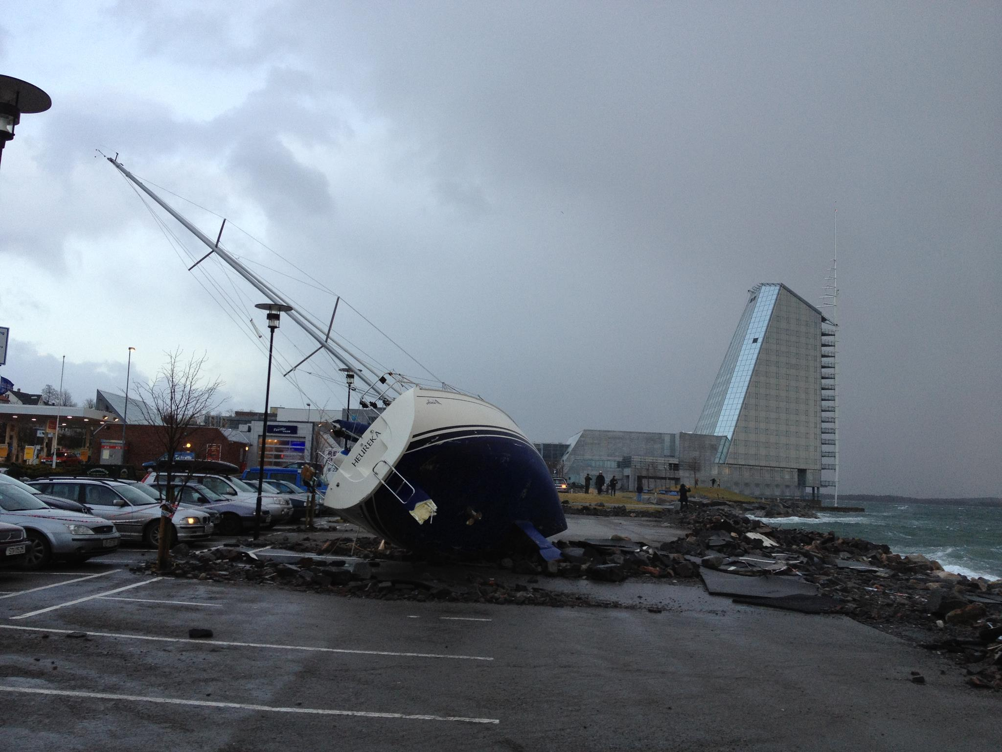 A Hanse 341 after the storm Dagmar, at Seilet Hotel in Molde, NorwayNorsk bokmål: En Hanse 341 etter stormen Dagmar, ved Seilet hotell i Molde, Norge